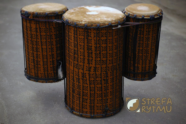 Set of dundun drums typical for Malinke people living in North Guinea.